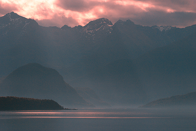 Lake Manapouri, Fiordland, New Zealand